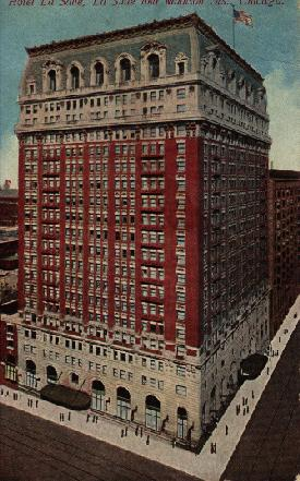 Historical La Salle Hotel in Chicago, demolished in July 1976